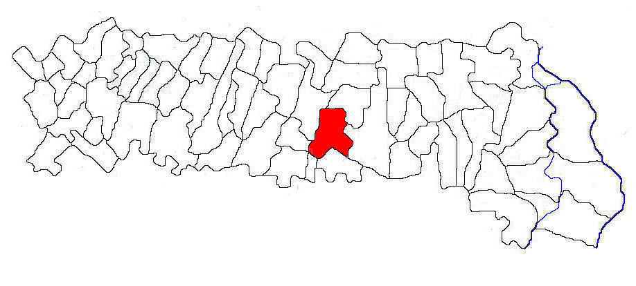 Map with limits of commune